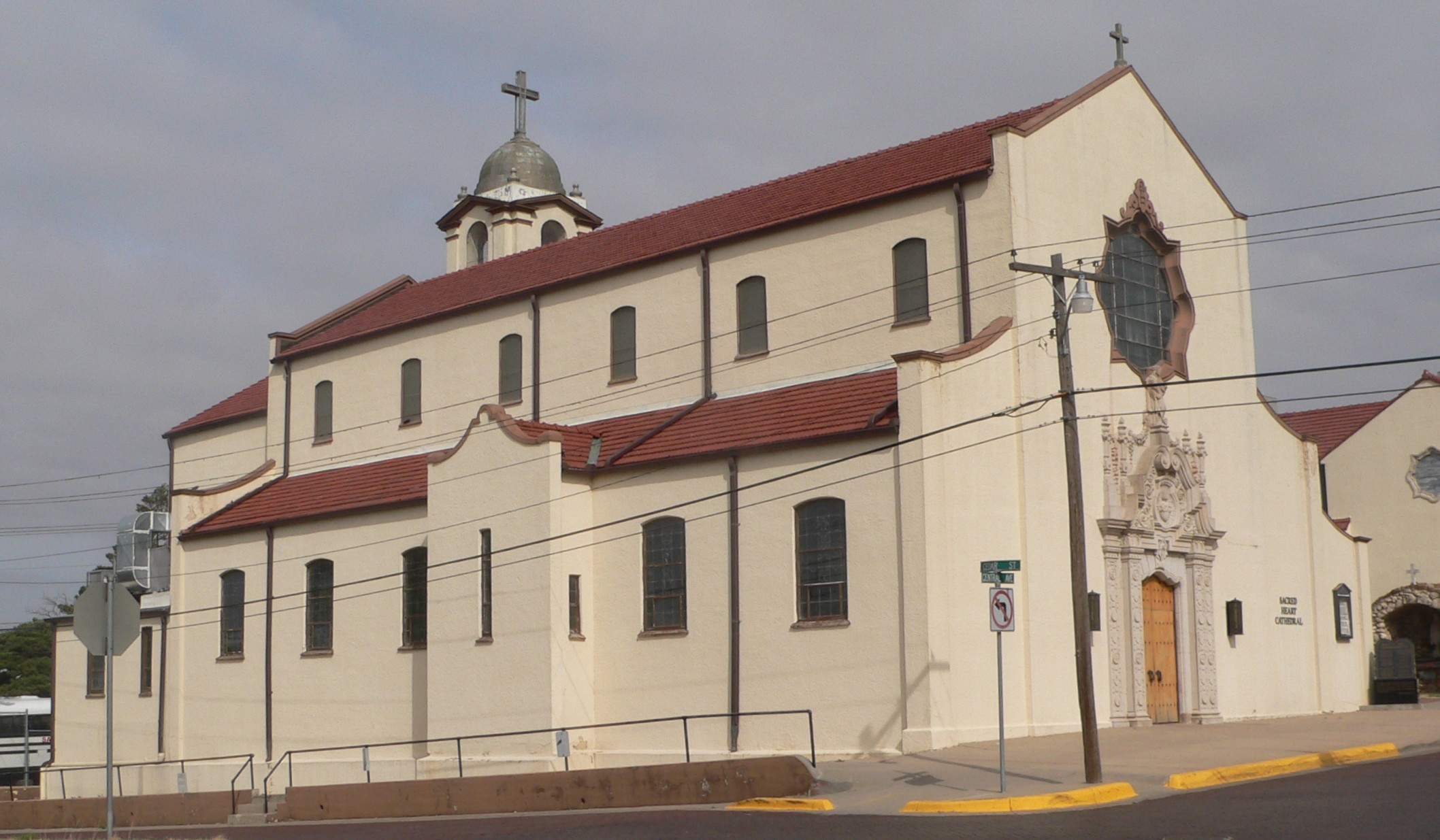 Sacred Heart Cathedral, located at northwest corner of Cedar Street and Central Avenue in Dodge City, Kansas; seen from the southeast.